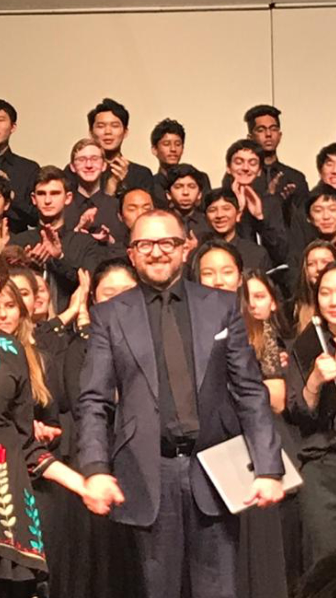 Welsh conductor Tim Rhys-Evans conducting at the AMIS Honor Choir Festival in Beijing, China, 2019.